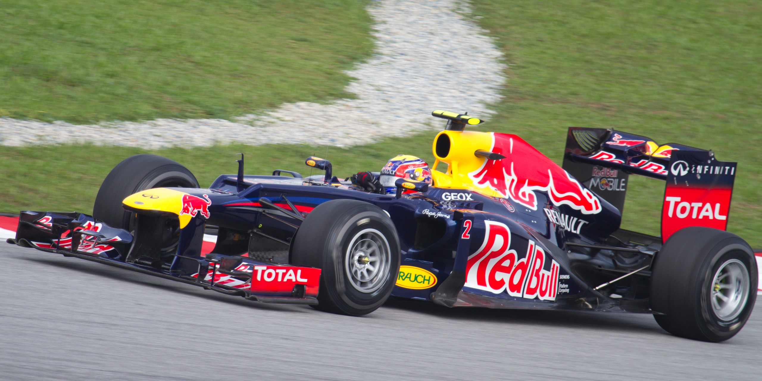 Formula One 2012 Rd.2 Malaysian GP: Mark Webber (Red Bull) during the qualify session on Saturday.